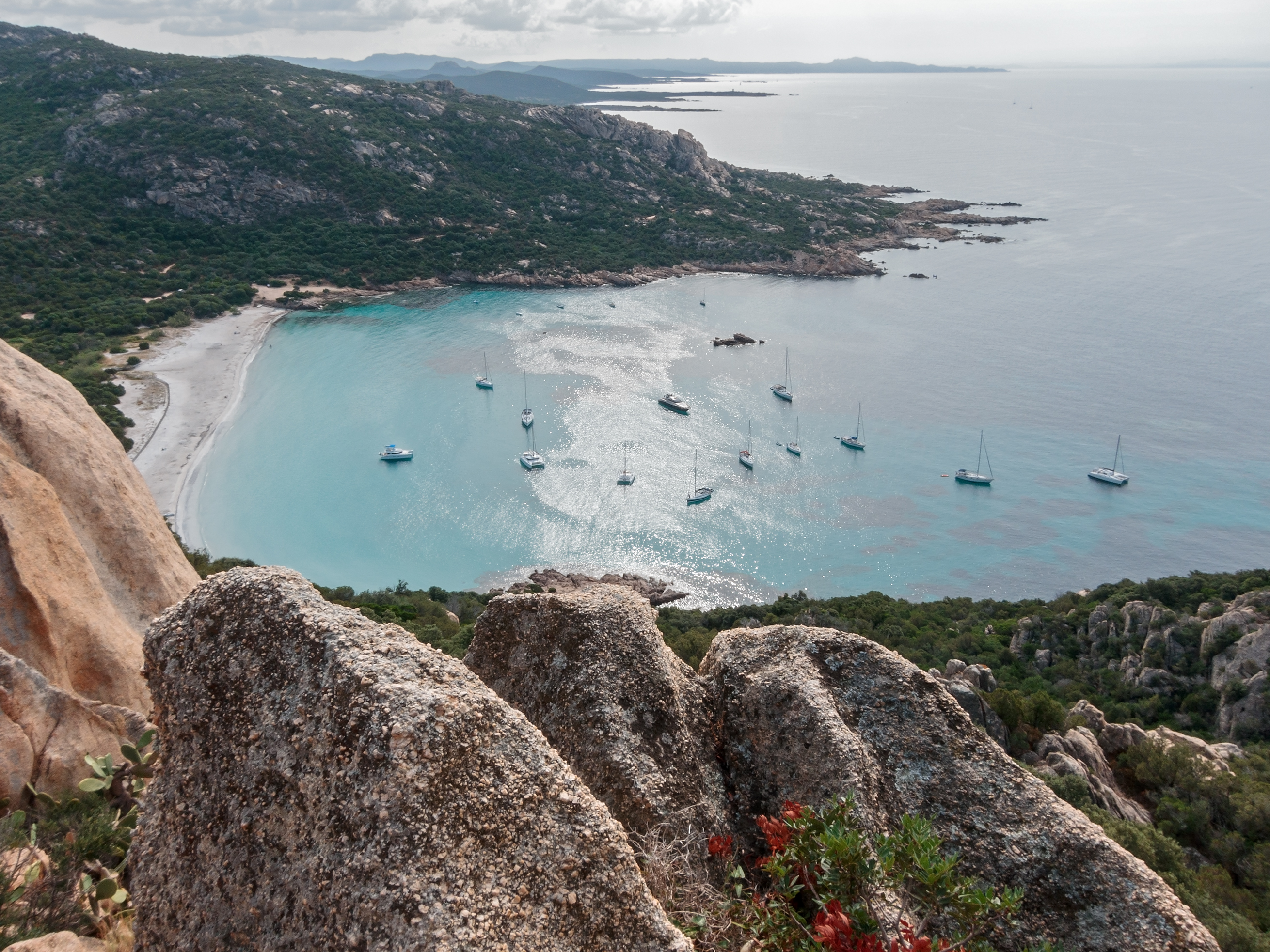 The small bay called Cala di Roccapina seen from the site of the Genoese tower of Roccapina, commune of Sartène, Southern Corsica, France. Corsu: Cala di Roccapina (cumuna di Sartè, Corsica suttana)